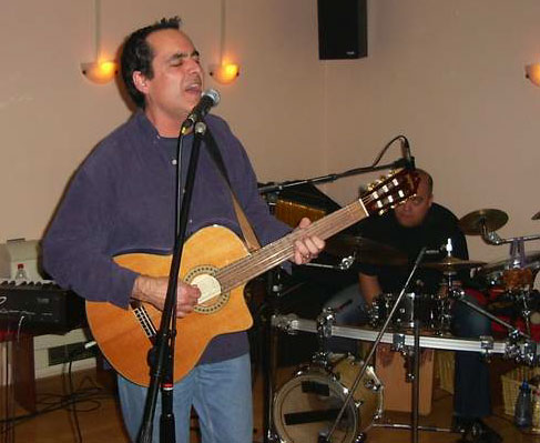 Neal Morse in Ede